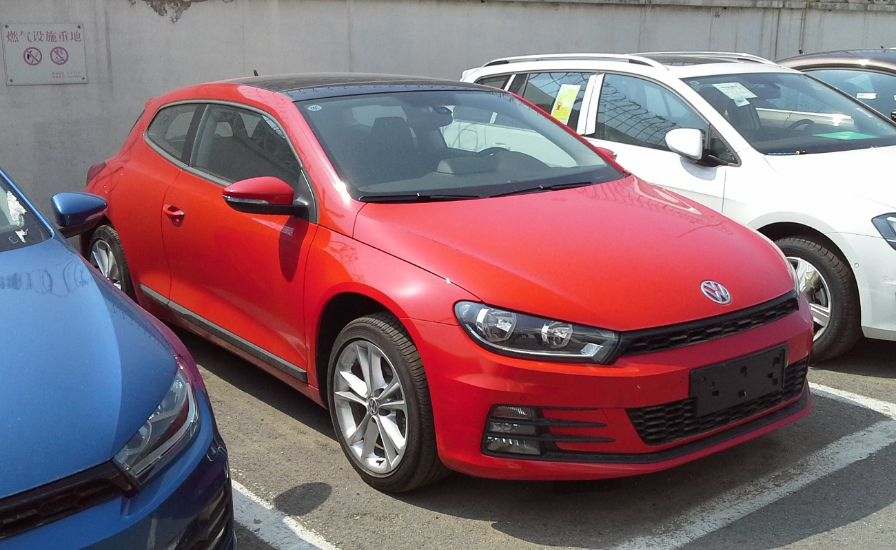 Volkswagen Scirocco III facelift photographed in Beijing, China.